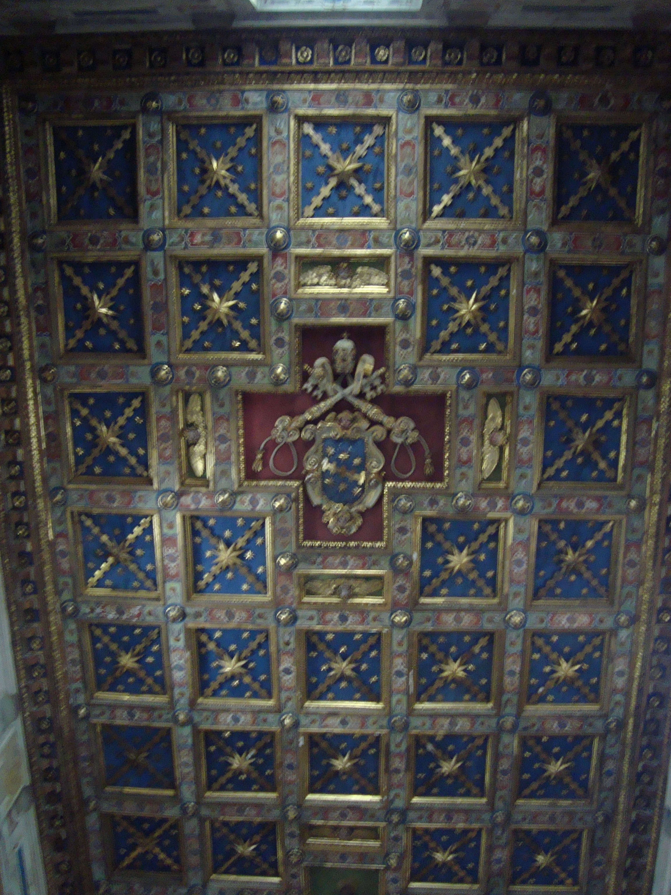 Ceiling of San Cesareo de Appia in Rome